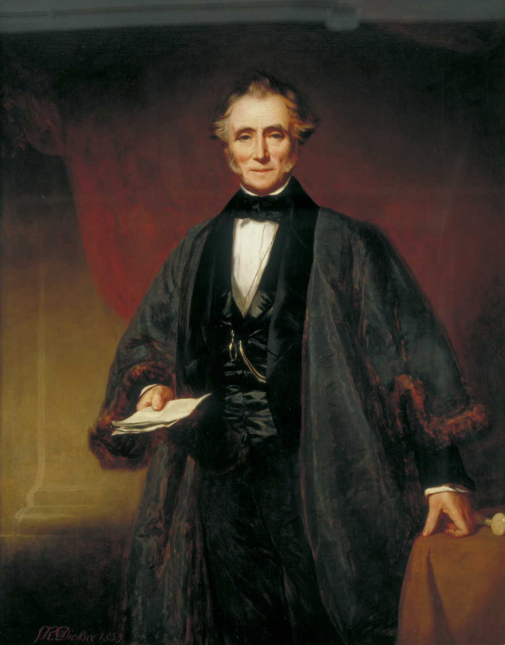 Warren Stormes Hale (1791–1872), Lord Mayor of London and Founder of the City of London School, Oil on canvas, 142 x 112 cm Guildhall Art Gallery, London